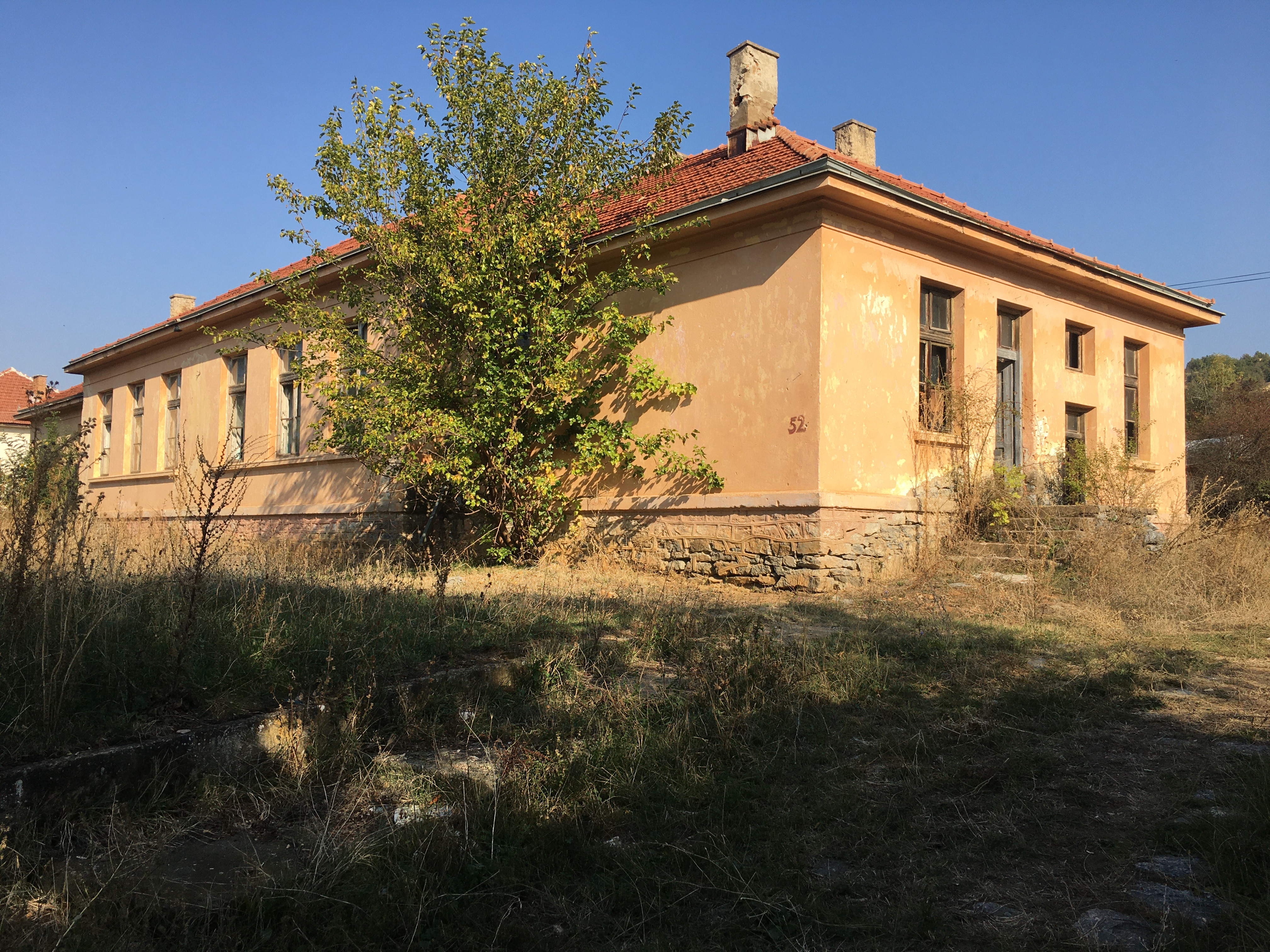 The building of the old school in the village of Ropotovo